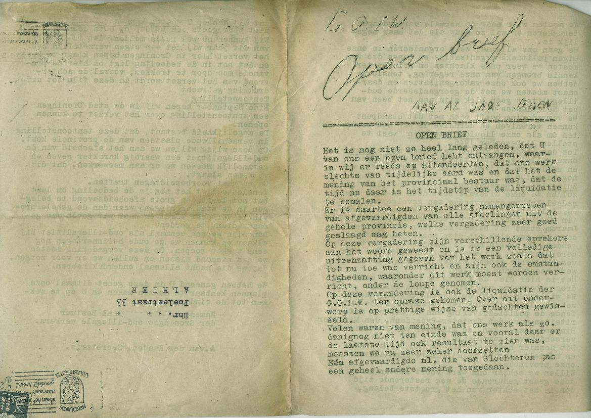 Open letter in Dutch about the liquidation of the GOIW (association of former illegal workers), Groningen division, first page. Continues in File:Opheffing-B.jpg.